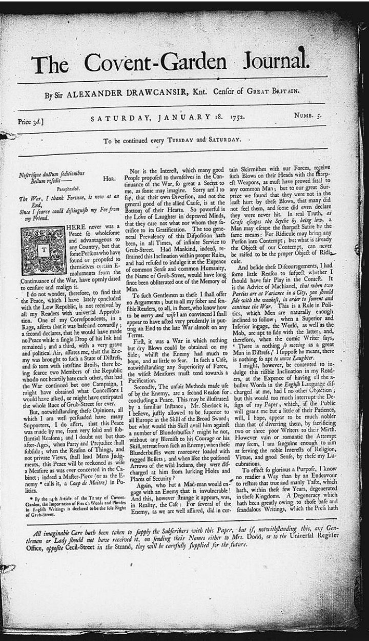 Title page from the fifth issue of Henry Fielding's journal, The Covent-Garden Journal